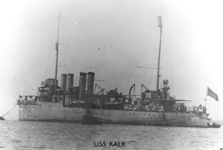 The U.S. Navy destroyer USS Kalk (DD-170) at a mooring, circa 1919-1922.